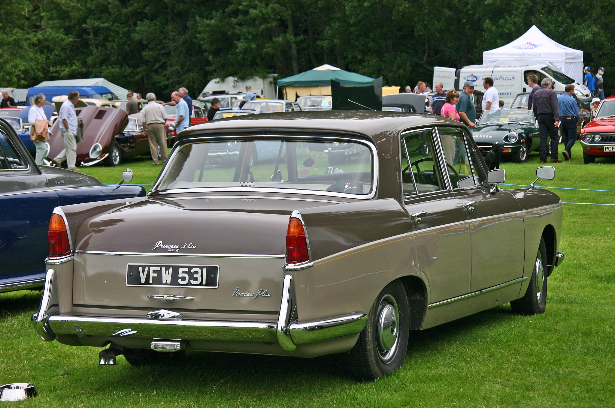 The finned original tail of the Vanden Plas Princess 3-litre